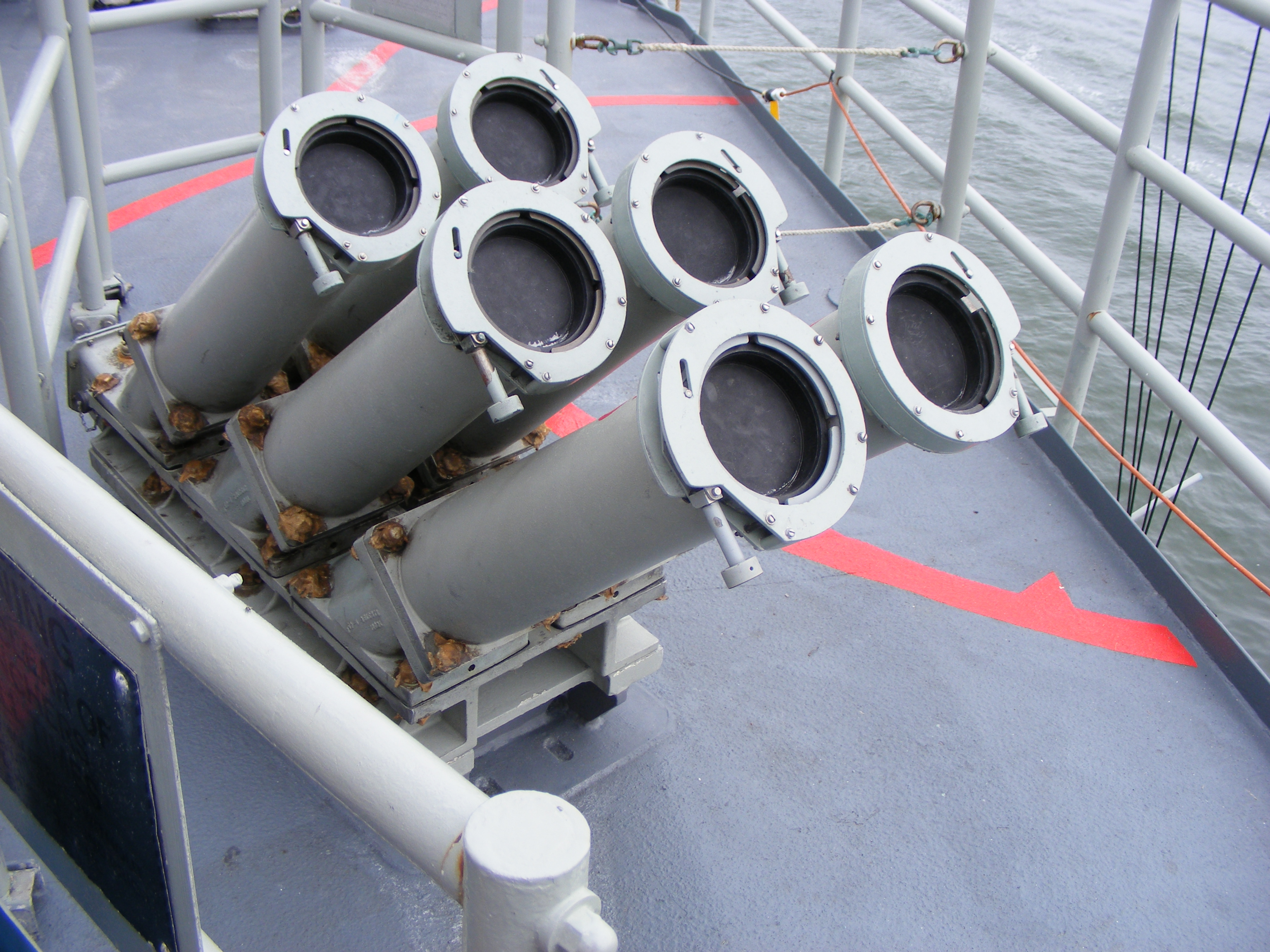 5 1/8" Mark 137, Mod 1 launcher on the port side of HMAS Adelaide FFG01 Photo taken on an open day at Dock 2, Port Adelaide, South Australia